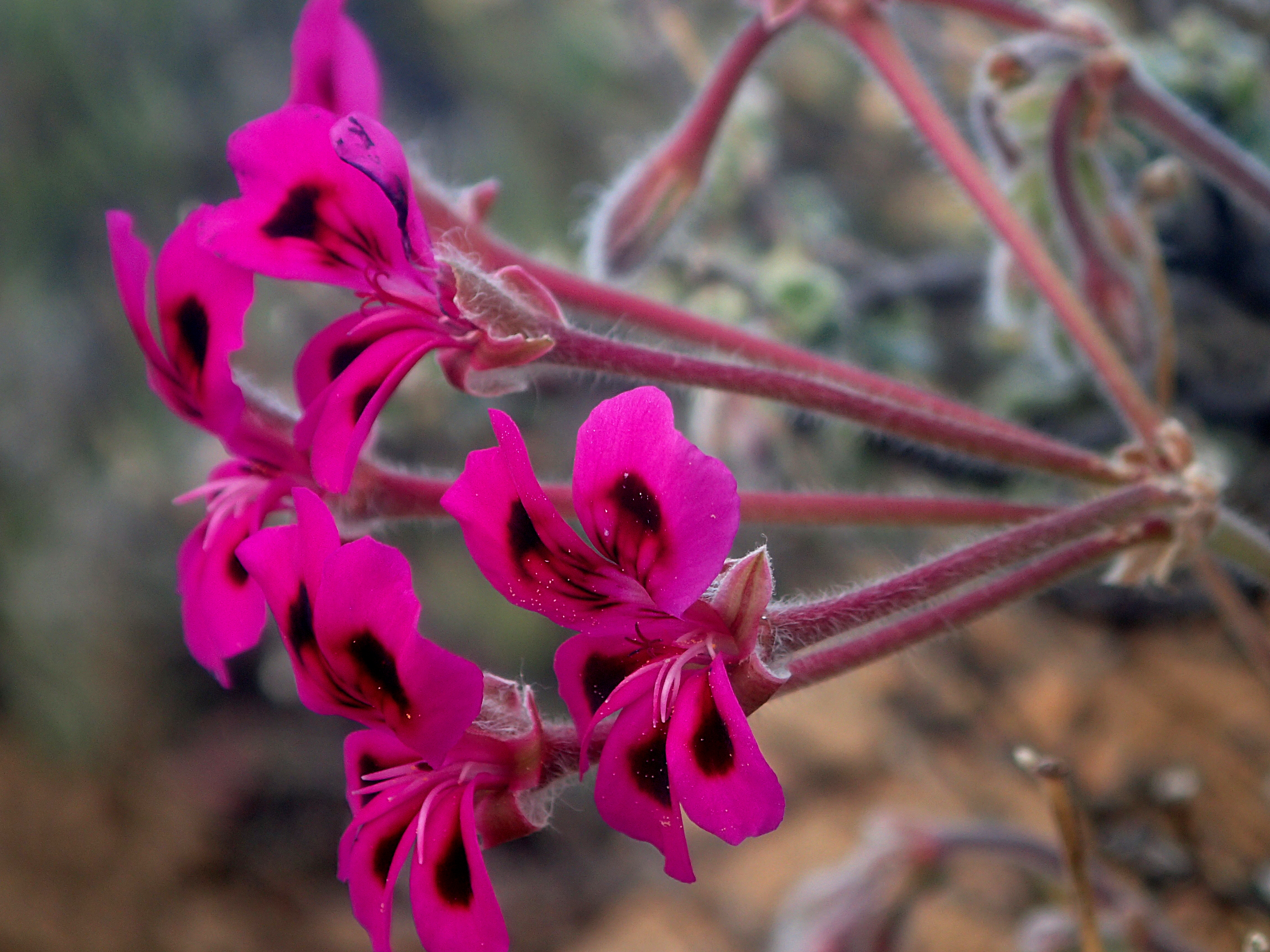 magenta-flowered pelargonium, Pelargonium magenteum, photographed in its natural habitat, the Bokkeveld Sandstone Fynbos, on the Gifberg, Western Cape, South-Africa